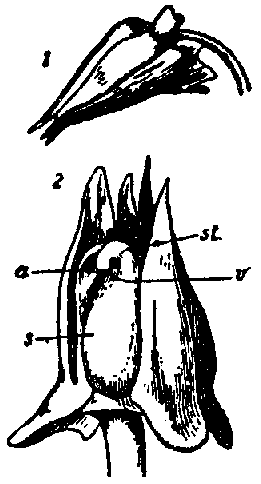 Analytic drawing of cleistogamic flower of Viola sylvatica.